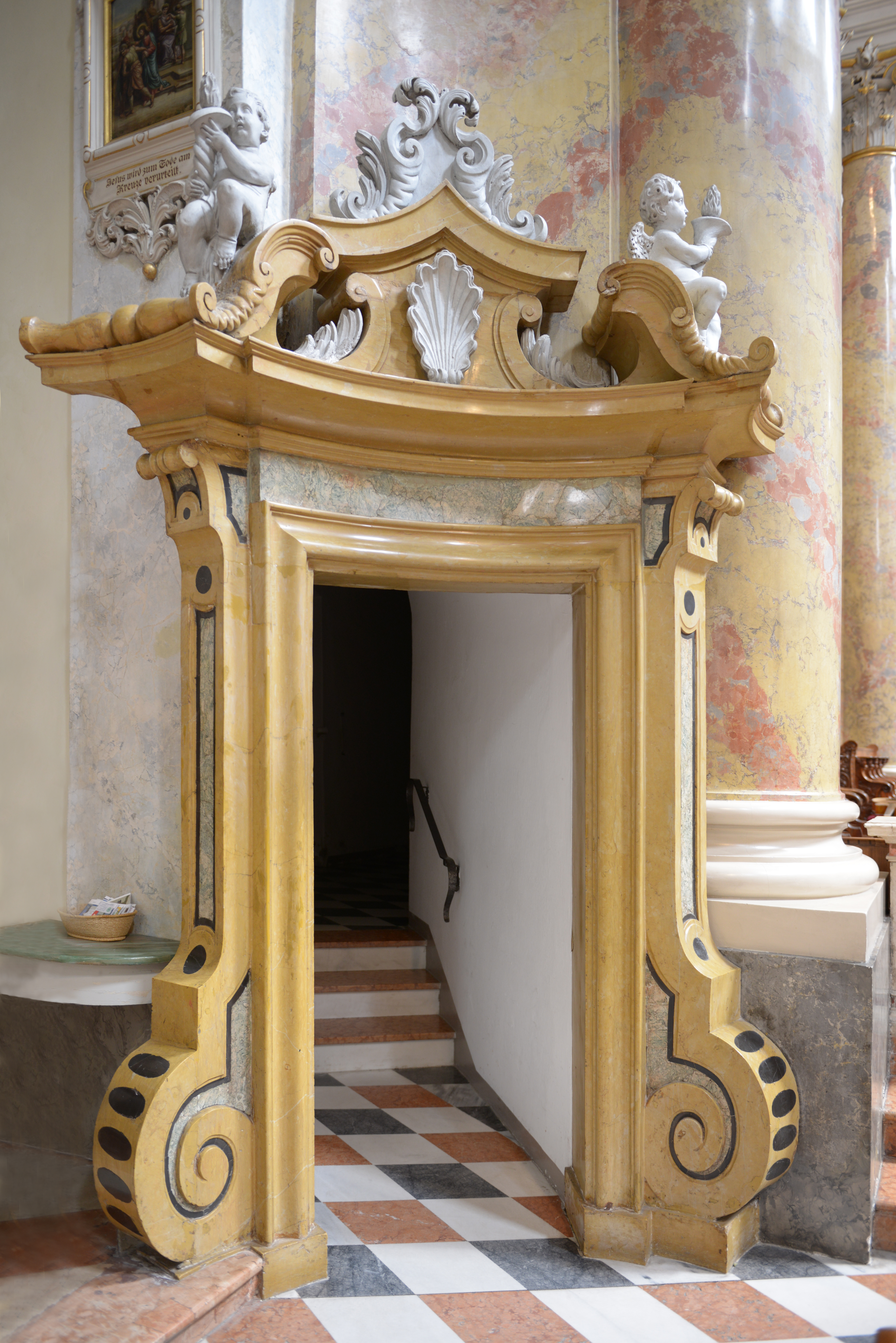 Portal in the church of Saint Augustin in Bozen-Gries